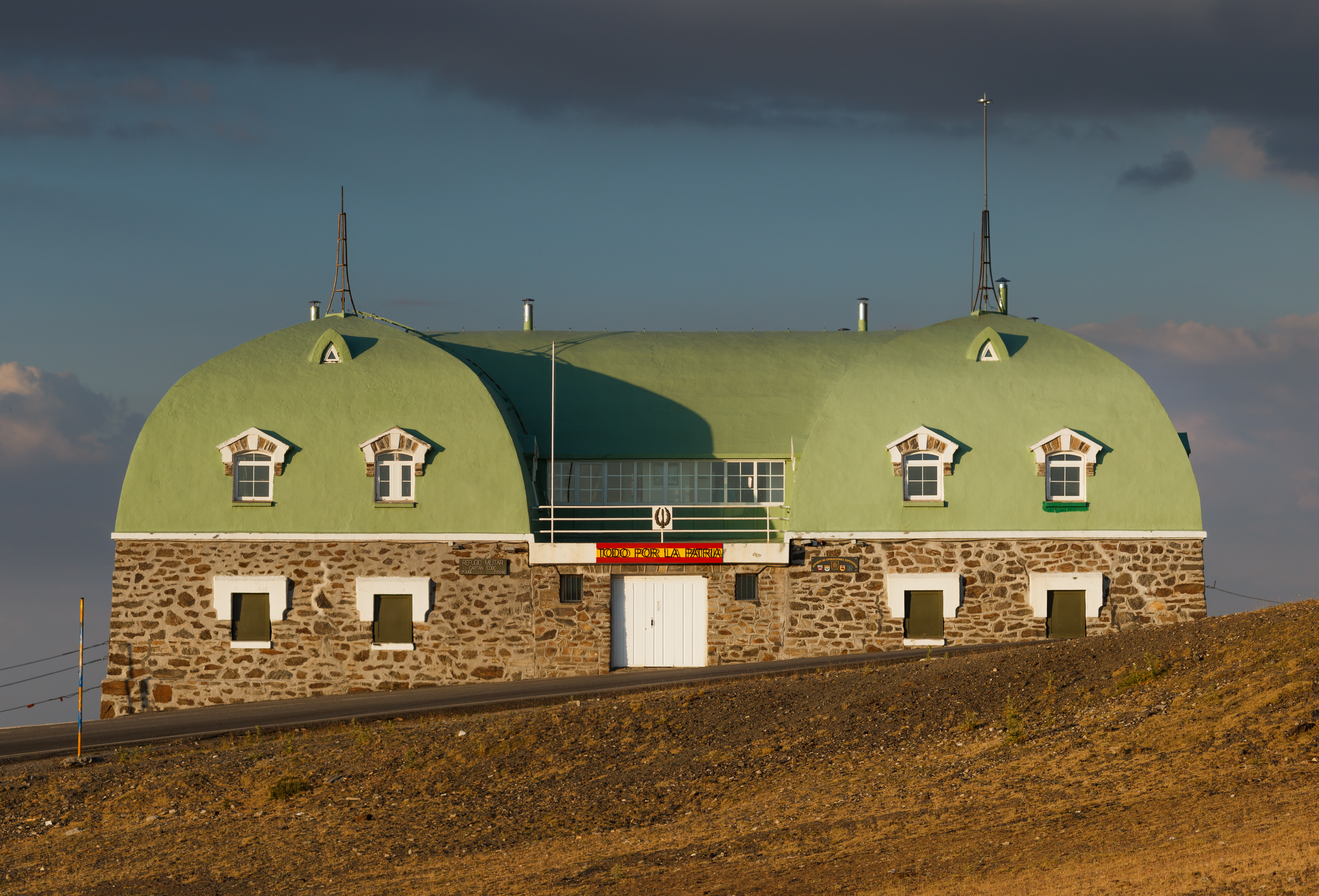 Refugio Militar Capitan Cobo. At the end of Carretera Hoya de la Mora (A-395) towards Pico del Veleta, Sierra Nevada, Spain at an altitude of 2550 m in evening light.